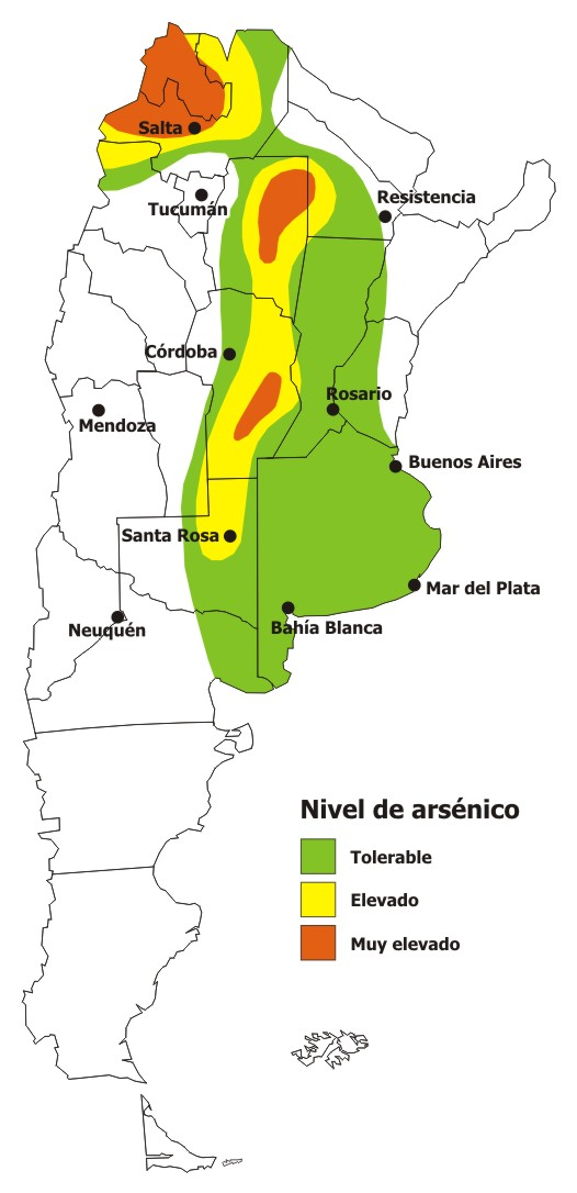 Arsenic presence in underground water of Argentina, data from national studies and the involved provinces.